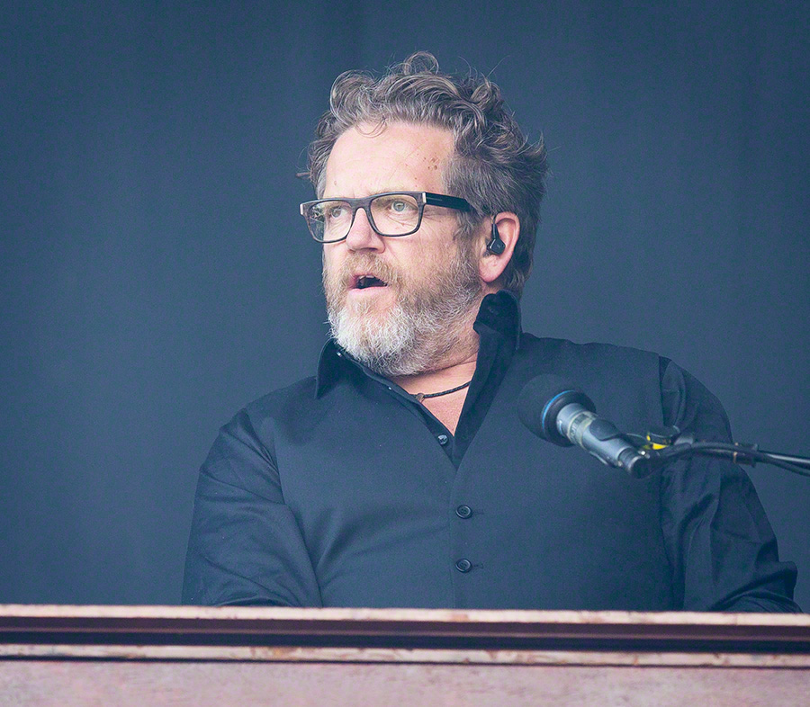 Terje Tranaas performs with Åge Aleksandersen and Sambandet at the main stage during Stavernfestivalen in Stavern on 08 July 2016. Lineup:Åge Aleksandersen (guitar / vocal)Skjalg Raaen (guitar)Steinar Krokstad (drums)Morten Skaget (bass)Gunnar Pedersen (guitar)Terje Tranaas (keyboard)Bjørn Røstad (baritone saxophone)Unidentified (trumpet)Unidentified (trombone)Unidentified (tenor saxophone)